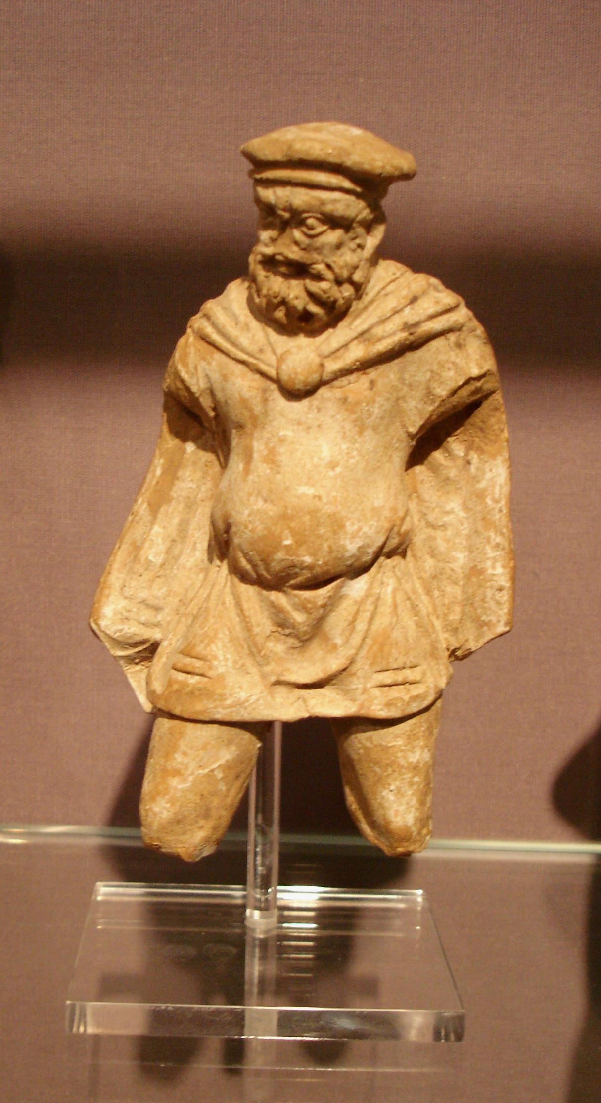 Actor of New Comedy, probably a soldier or a traveller. Terracotta figure made in Athens (?), ca. 300–150 BC. Found in Cyrenaica.